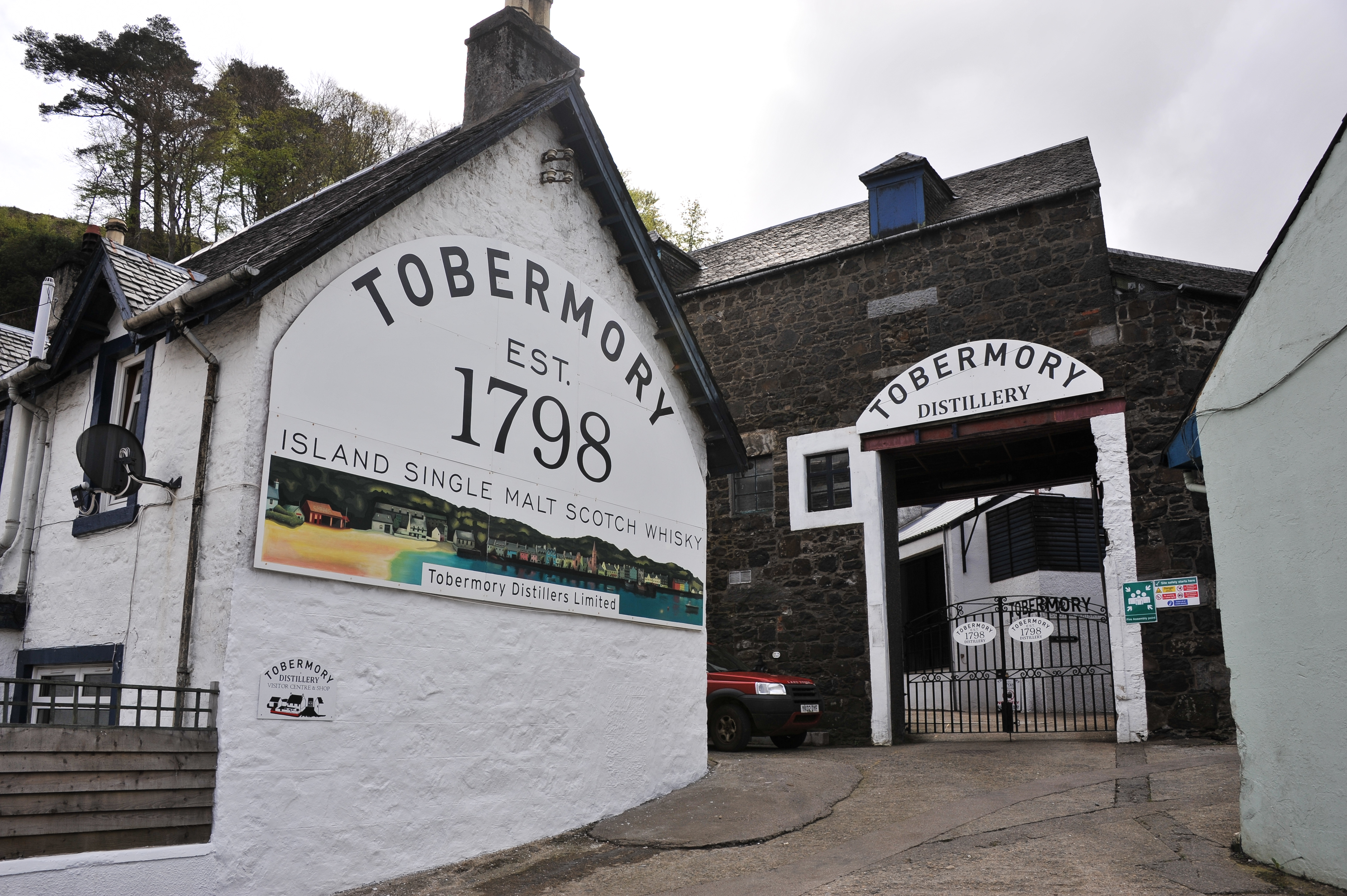 View of the front gates of Tobermory Distillery on the Isle of Mull.